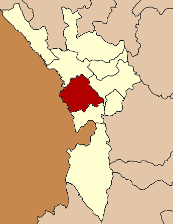 Map of Tak province, Thailand, highlighting Amphoe Mae Sot.